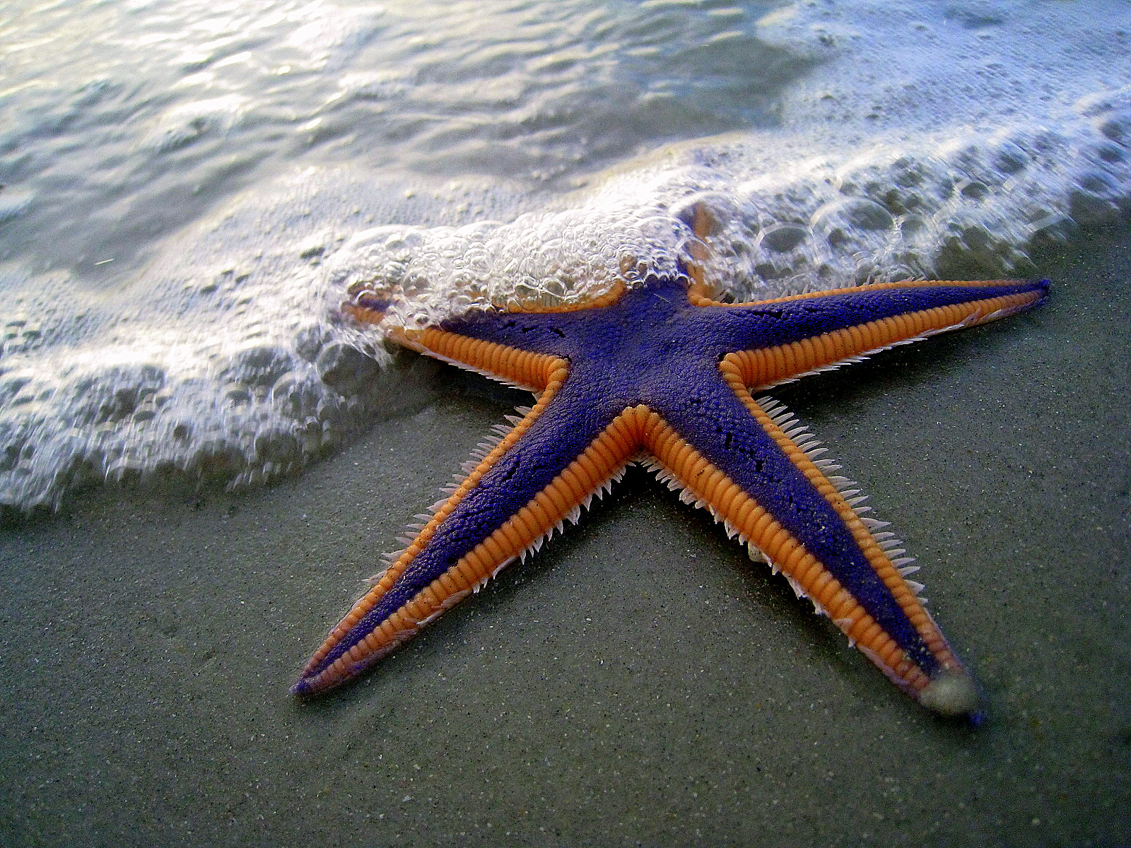 A foreign woman ran up to me and put it in my hand and said "Here you go, starfish, be happy! be smiley!" This is the Royal Starfish. The Astropecten articulatus.